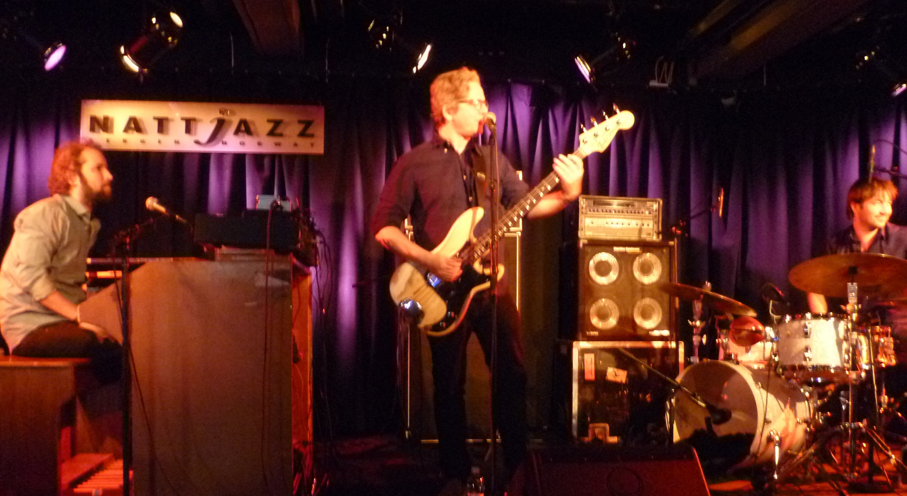 David Wallumrød, Audun Erlien and Anders Engen at Sardinen, USF Verftet, Nattjazz 2016.